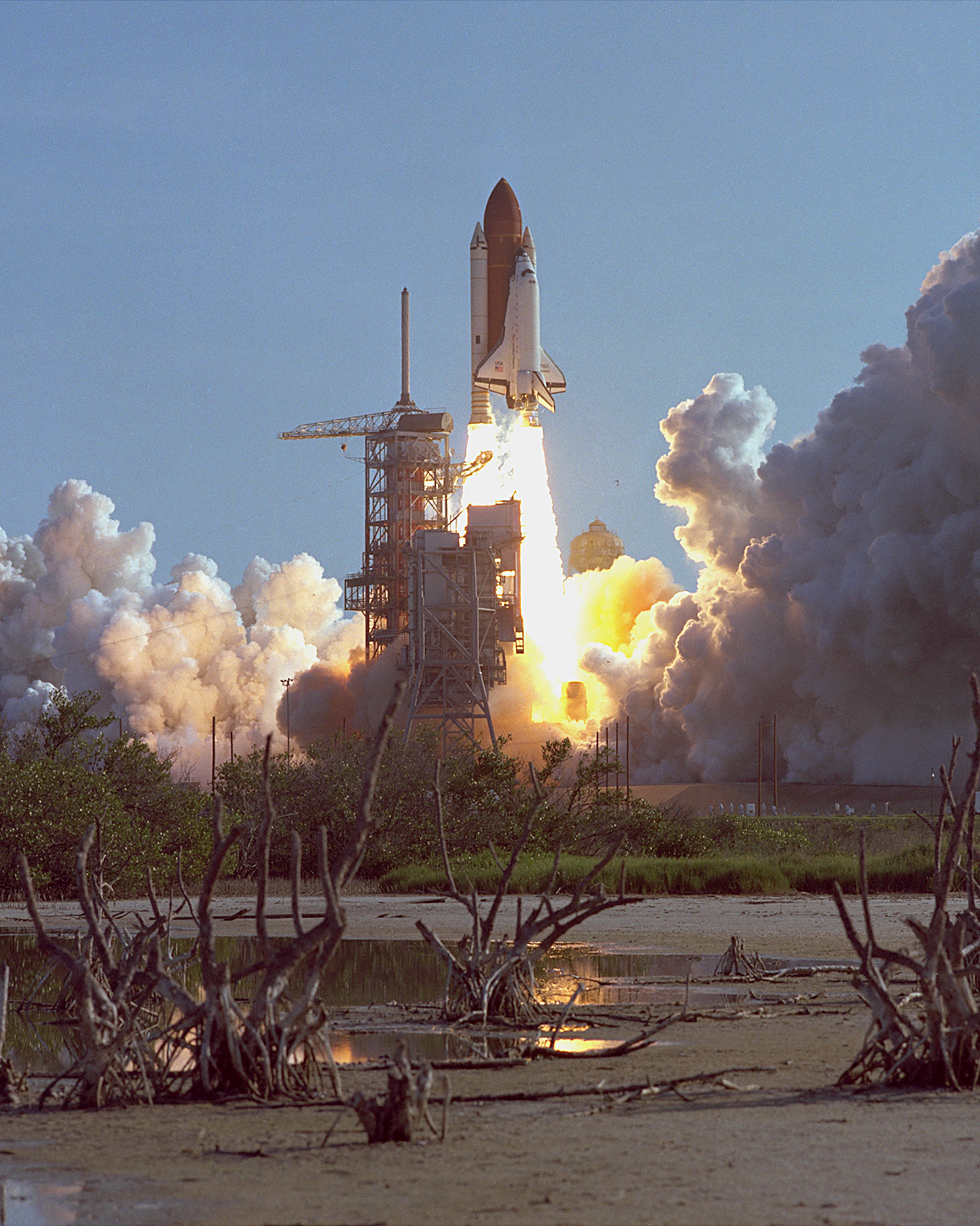 STS-41-D launches from Kennedy Space Center, August 30, 1984.